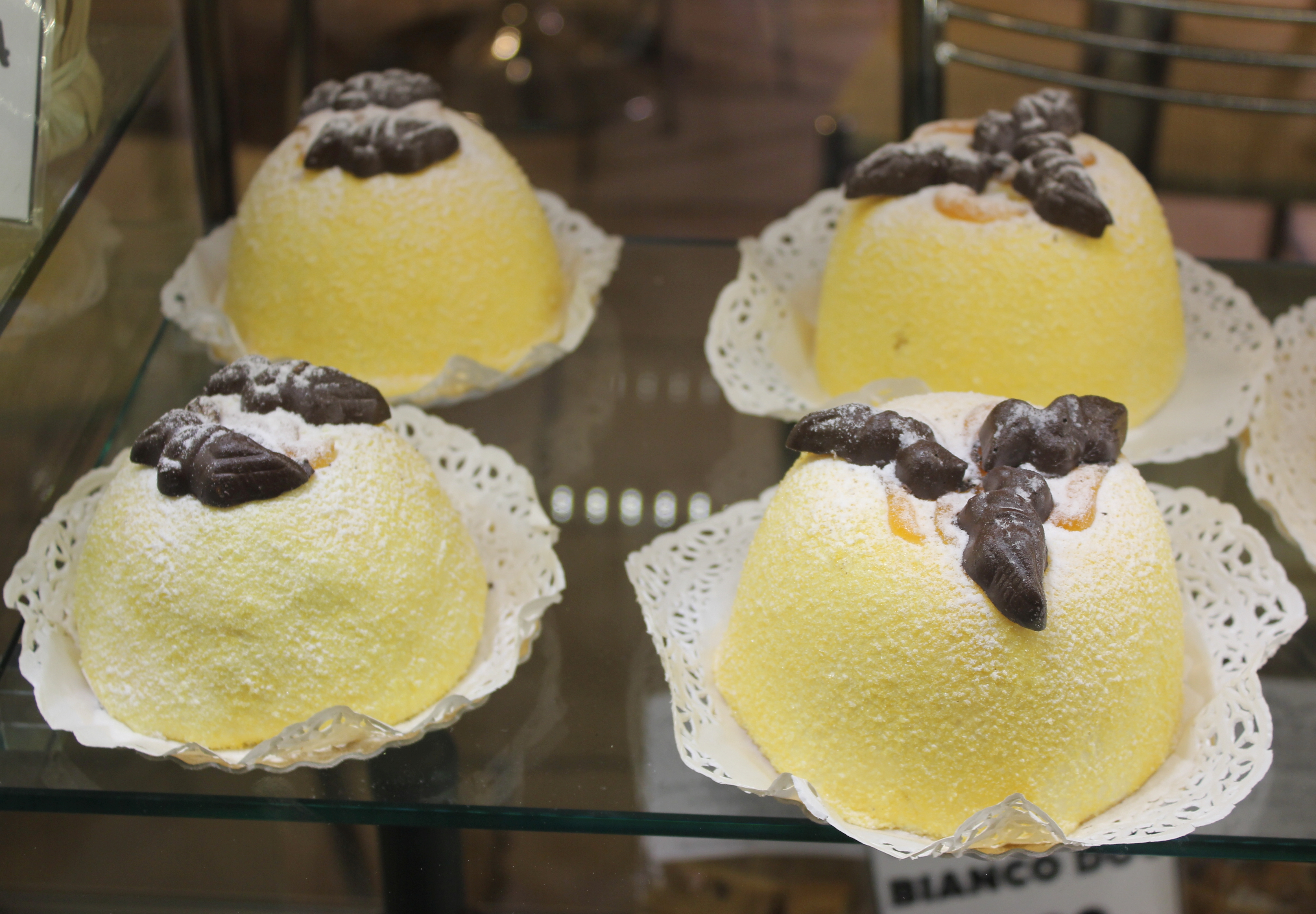 Bergamo - polenta